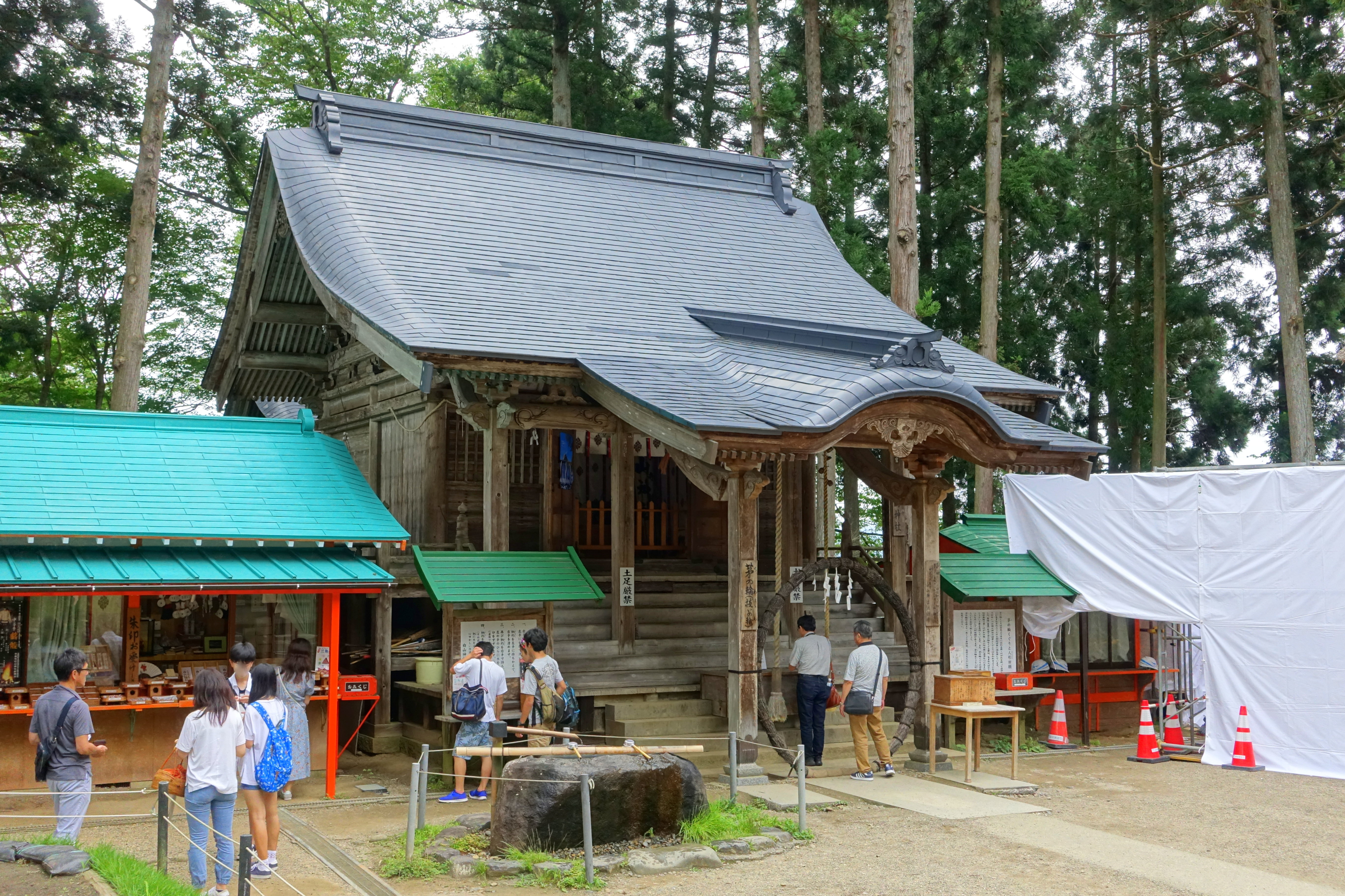 Hakusan-jinja - Chusonji, Hiraizumi, Iwate, Japan.